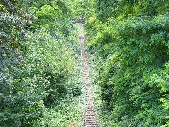 Chemin de fer de Petite Ceinture, nature 2 – "La Petite Ceinture at Ave. Jean Moulin, looking west."